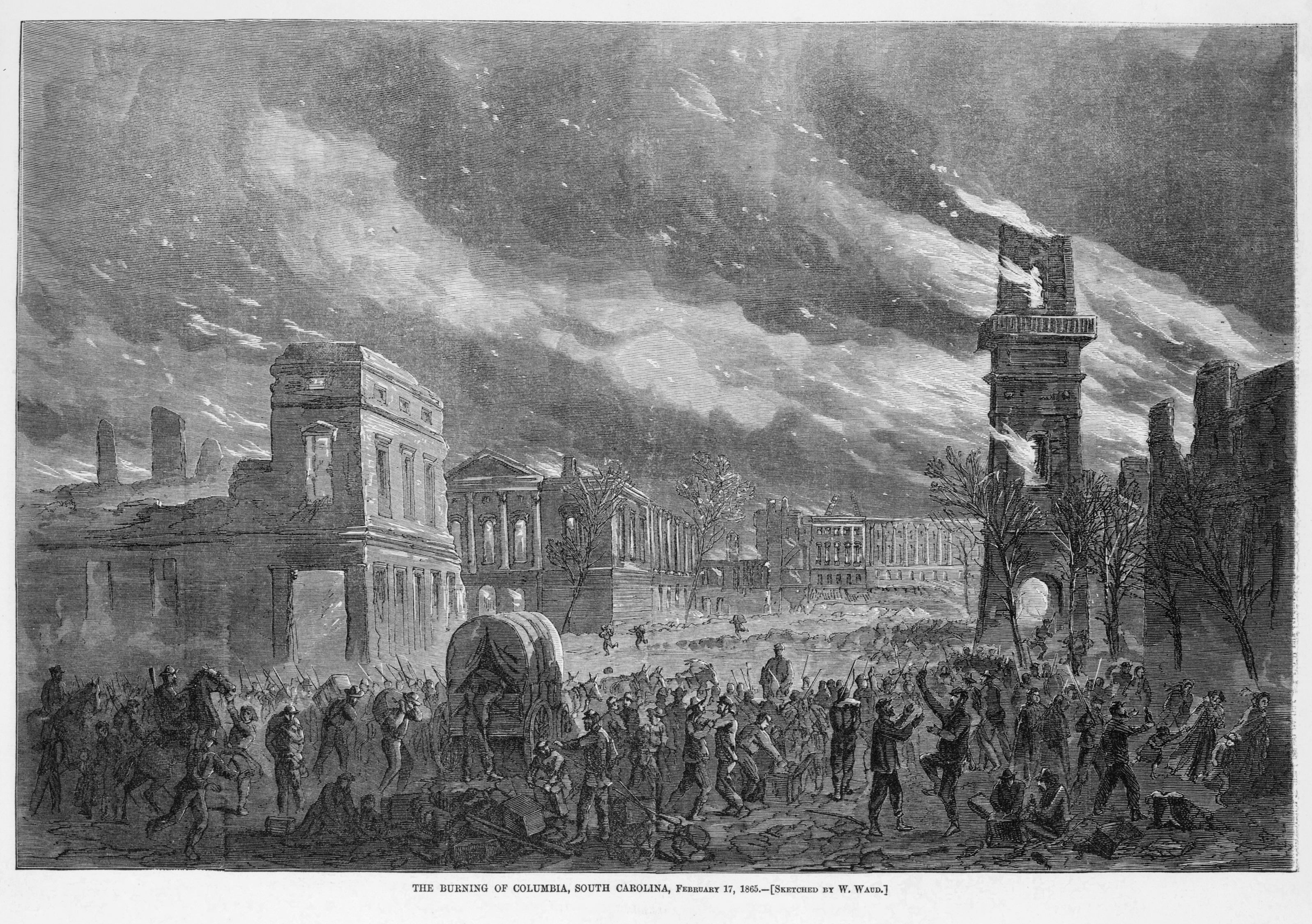 The burning of Columbia, South Carolina, February 17, 1865, by General Sherman's troops.